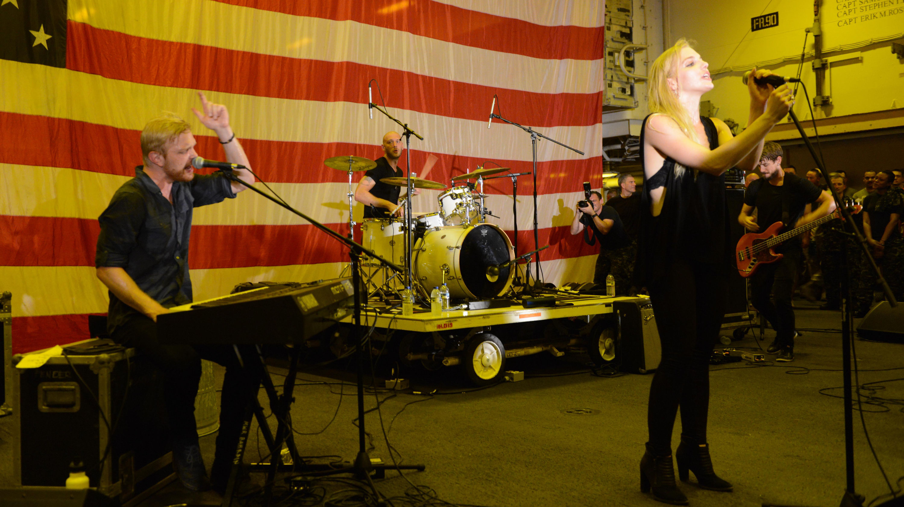 Delta Rae, a folk-rock band from Durham, N.C., performs live for Sailors and Marines in the hangar bay aboard the multipurpose amphibious assault ship USS Bataan (LHD 5), July 25. Bataan is the flagship for the Bataan Amphibious Ready Group and, with the embarked 22nd Marine Expeditionary Unit, is deployed in support of maritime security operations and theater security cooperation efforts in the U.S. 5th Fleet area of responsibility. (U.S. Navy photo by Mass Communication Specialist 3rd Class Mark Hays/Released)